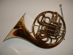 A Photograph of a Wikipedia user Dbrandon's French horn.